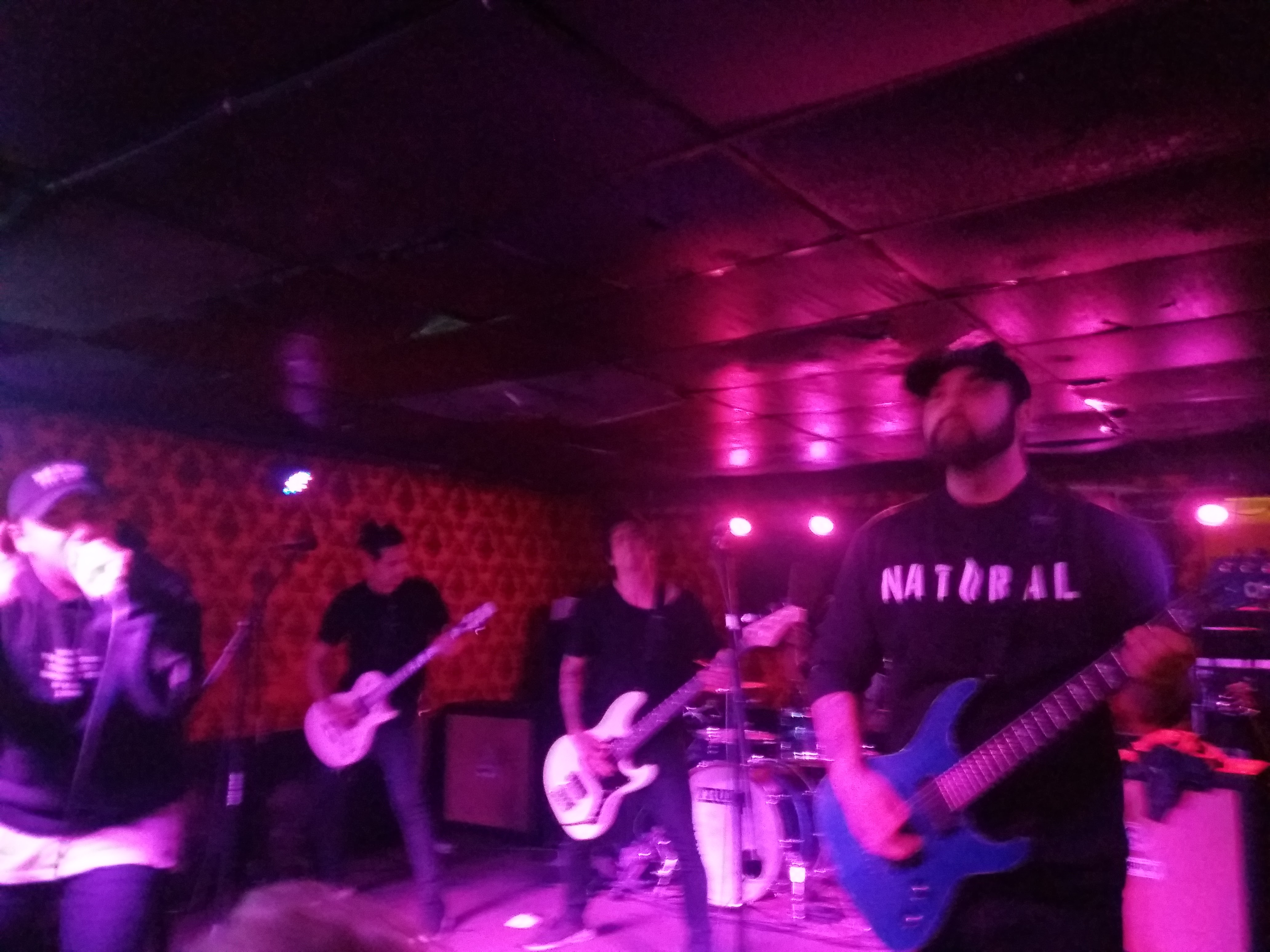 New Jersey based band Palisades playing at The Jackpot in Lawrence, KS in 2016